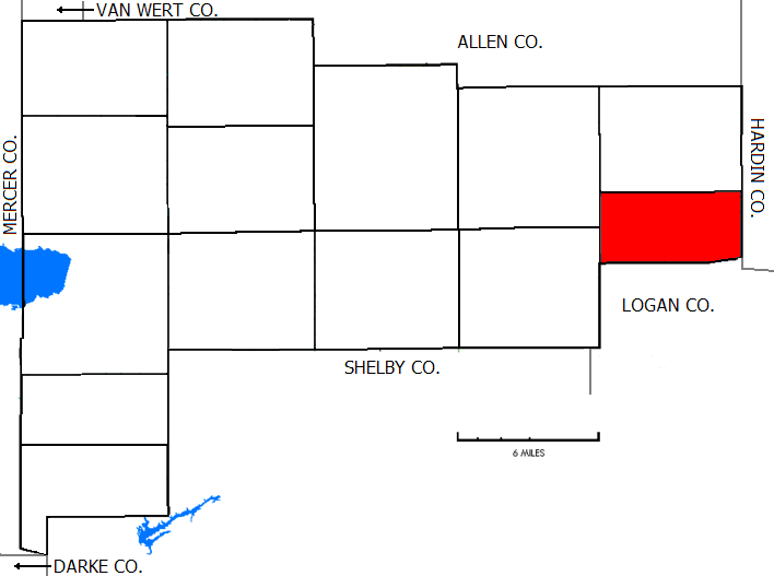 Taken from the Auglaize County map provided by Prinzwilhelm, who claimed that the original map was "self-created based on U.S. Government Census Maps and Date."